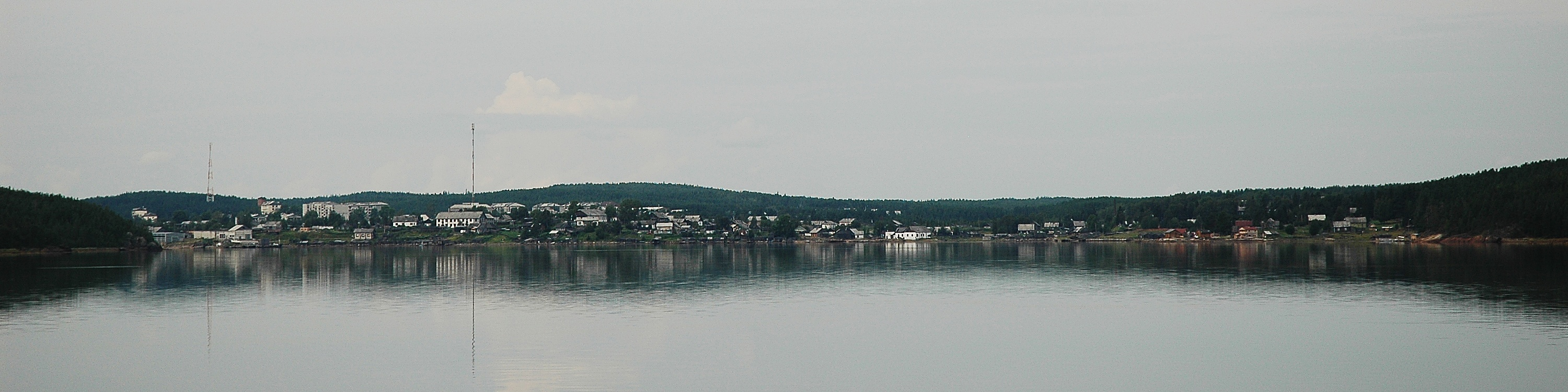 Chupa, a small settlement on the White Sea, as seen from the gulf of Chupa (southern coast of Kandalaksha Gulf)